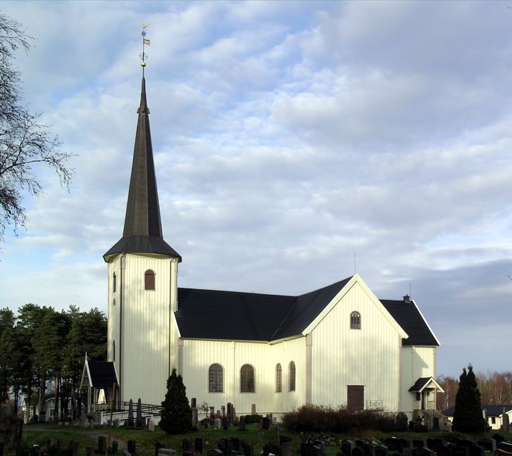 Våler church in Våler, Hedmark, Norway.